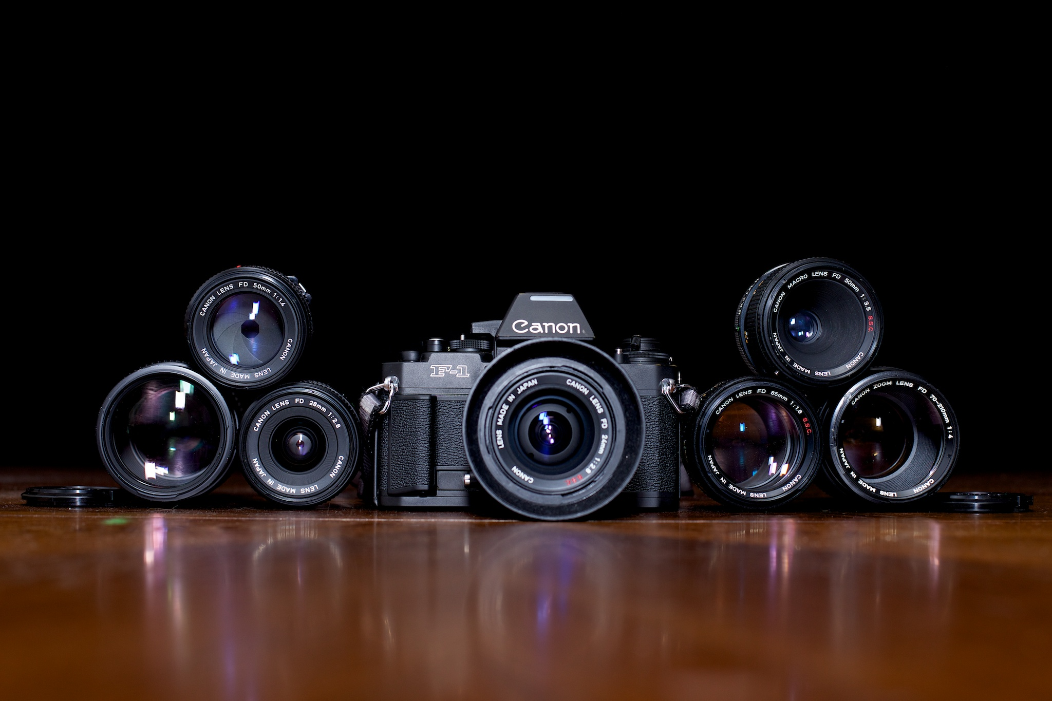 Body: Canon F-1 Lenses (from left to right): FD 80-200mm f/4L Macro FD 50mm f/1.4 FD 28mm f/2.8 FD 24mm f/2.8 S.S.C. FD 85mm f/1.8 S.S.C. FD 50mm f/3.5 S.S.C. FD 70-210mm f/4 Macro